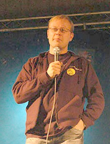 Finnish evangelist Riku Rinne speaking at Nostetta & Asennetta youth festival in Hämeenlinna, Finland, on 4th November 2006, edited from Mikko Ahlroth's photo